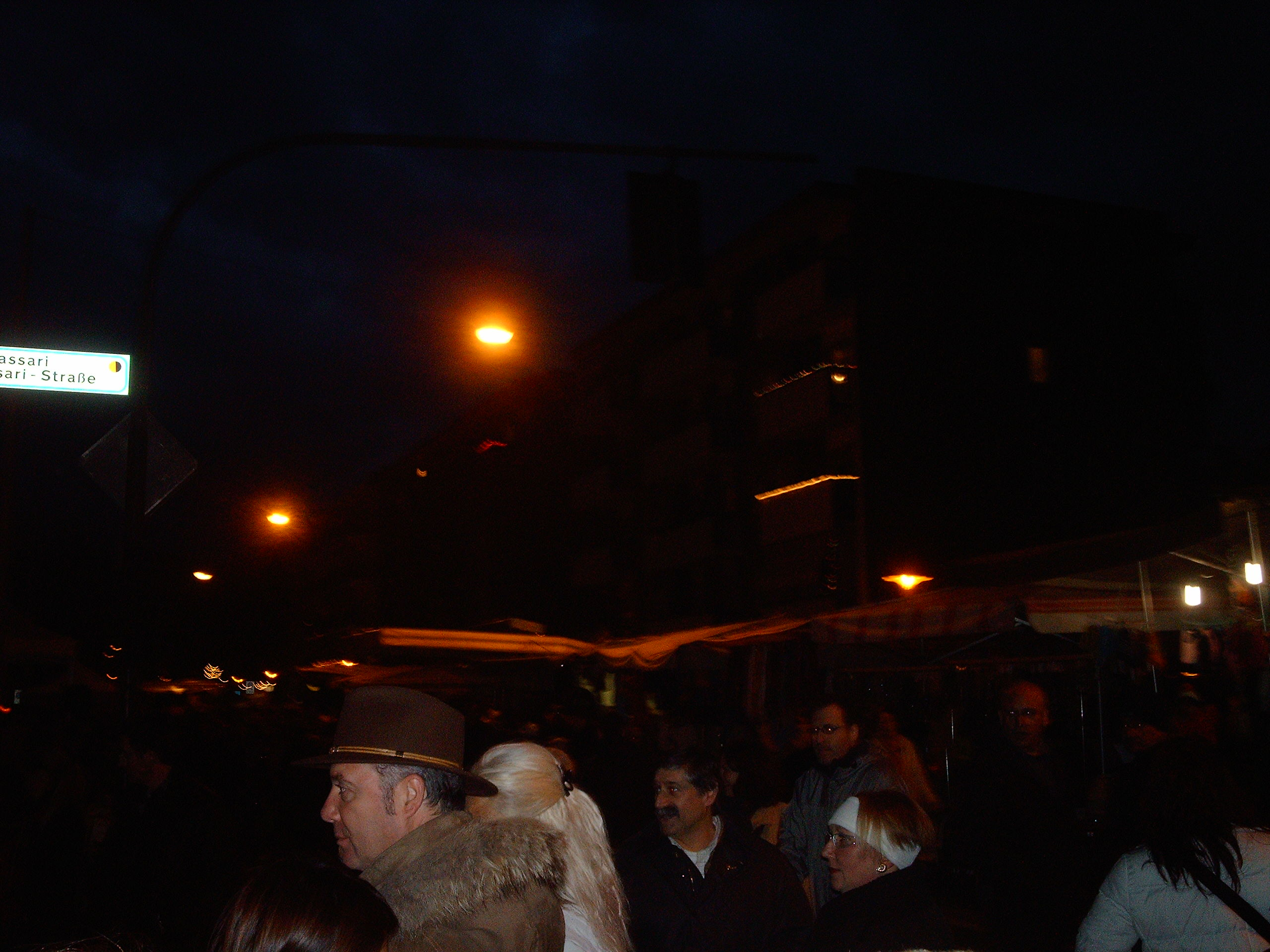 Picture by Skafa